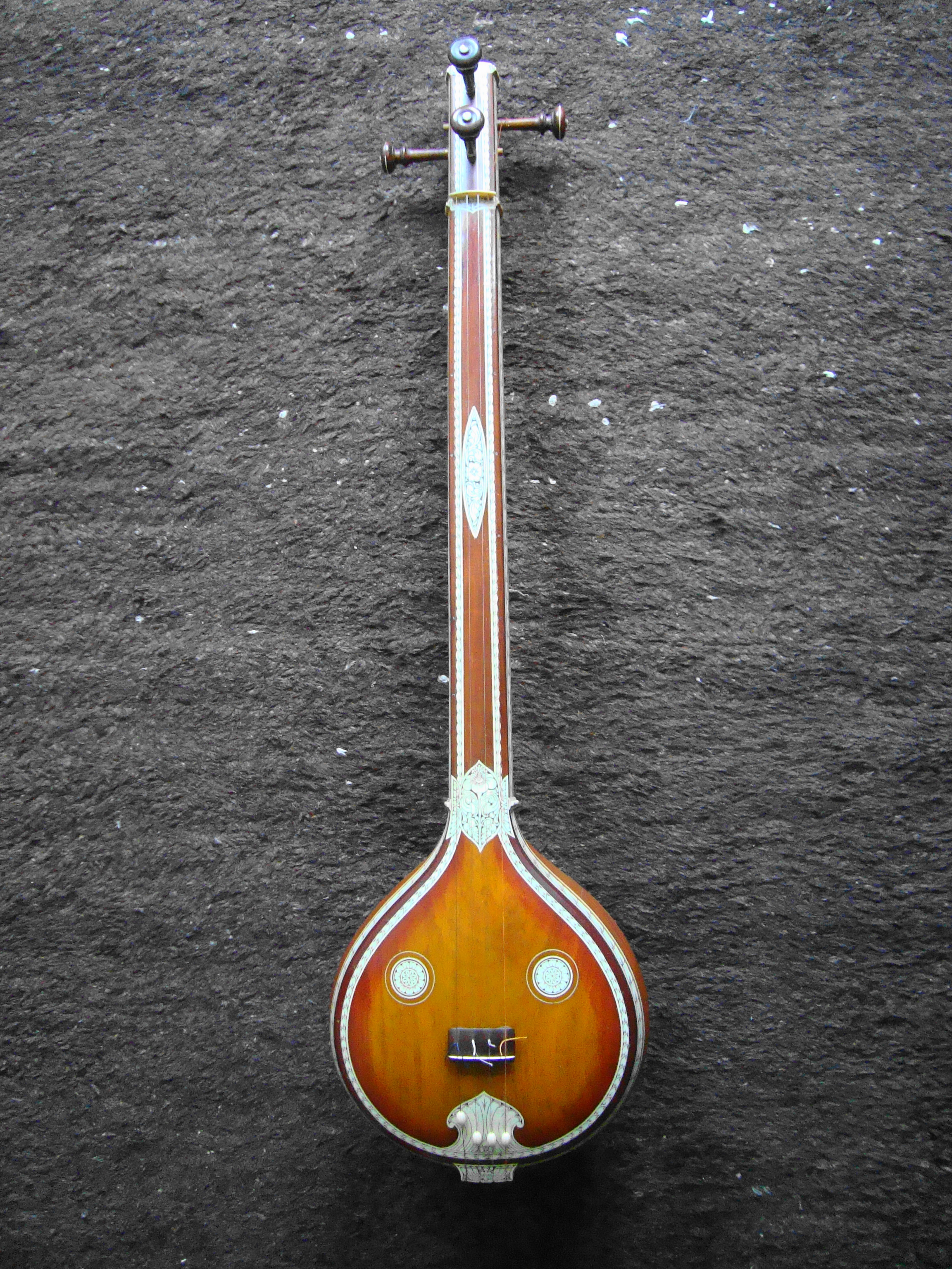 Tanjore-style Carnatic tambura